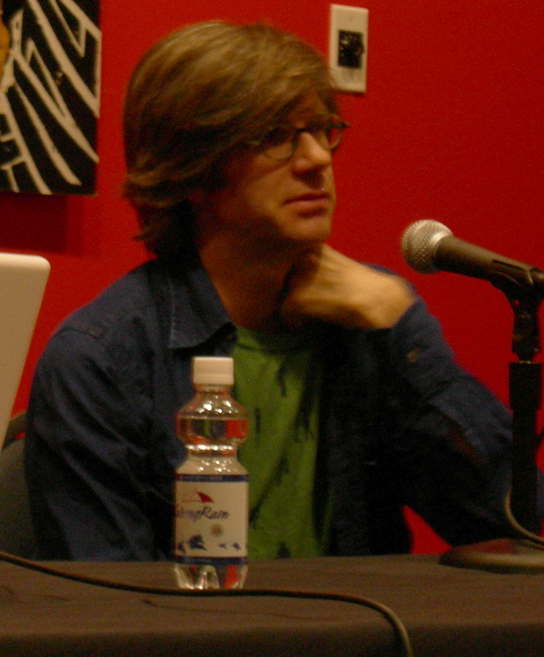 Minneapolis critic, arts editor (City Pages) and songwriter Dylan Hicks at 2007 Pop Conference, Experience Music Project, Seattle, Washington. Picture is slightly sharpened.